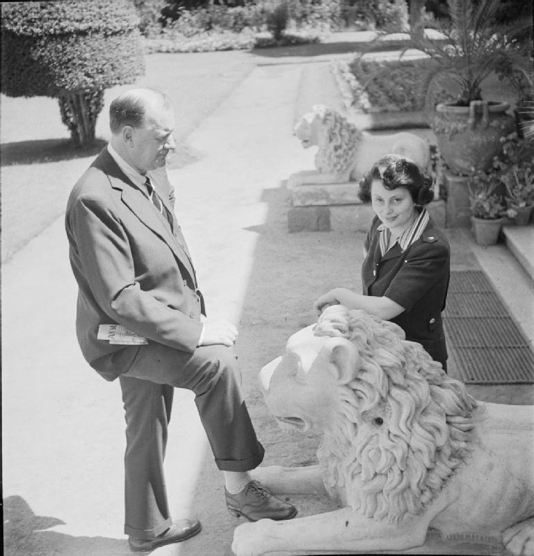 Cecil Beaton Photographs- Political and Military Personalities Political Personalities: The British Ambassador Sir Miles Lampson with Lady Lampson in the garden of the Embassy at Cairo.